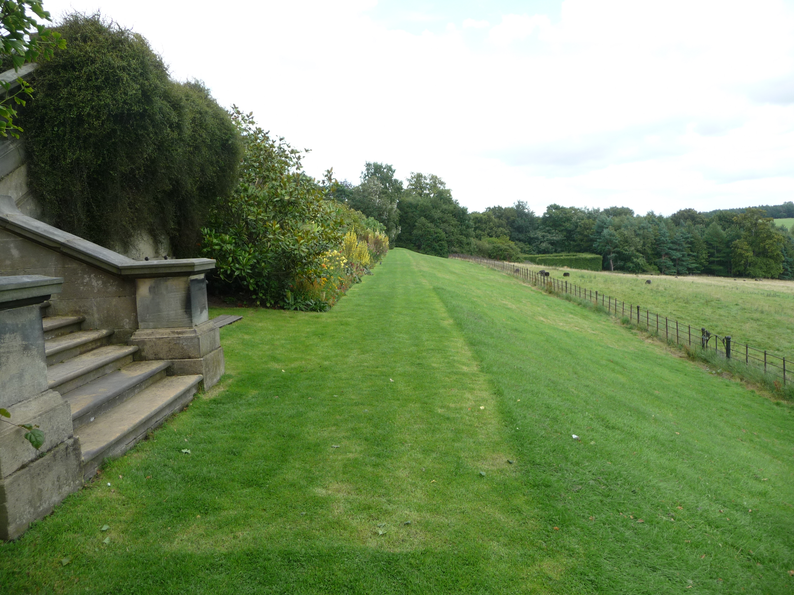 Gardens of Harewood House in Harewood, West Yorkshire, United Kingdom